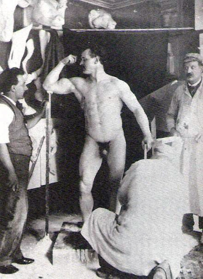 This curious unsigned picture (circa 1895-1900) shows strongman Eugen Sandow (1867-1925) being prepared for moulding a cast of his body, to be used as a model for sculptors and artists.